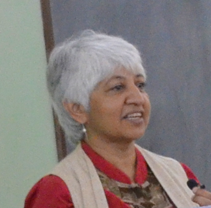 Tejaswini Niranjana is a Senior Fellow at the Centre for the Study of Culture and Society (CSCS), Bangalore, and Visiting Professor at Tata Institute of Social Sciences (TISS), Mumbai joined A2K as an Adviser. She guides the Access to Knowledge team in expanding the Indian language Wikipedias and helps in increasing the number of active editors through strategic partnerships with Higher Education institutions across India. Personality rights warning Although this work is freely licensed or in the public domain, the person(s) shown may have rights that legally restrict certain re-uses unless those depicted consent to such uses. In these cases, a model release or other evidence of consent could protect you from infringement claims.